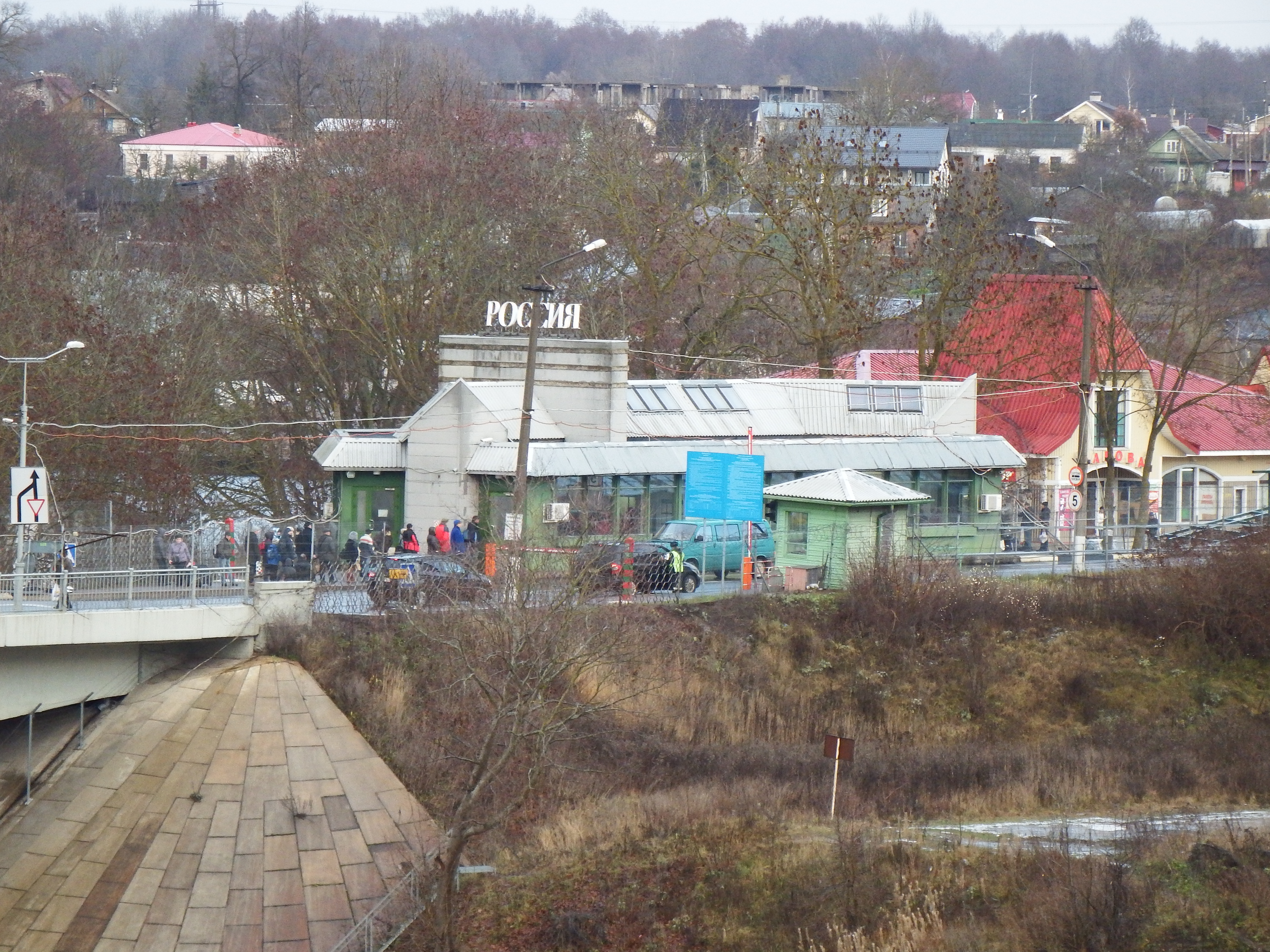 Russian-Estonian border, check-point "Ivangorod"